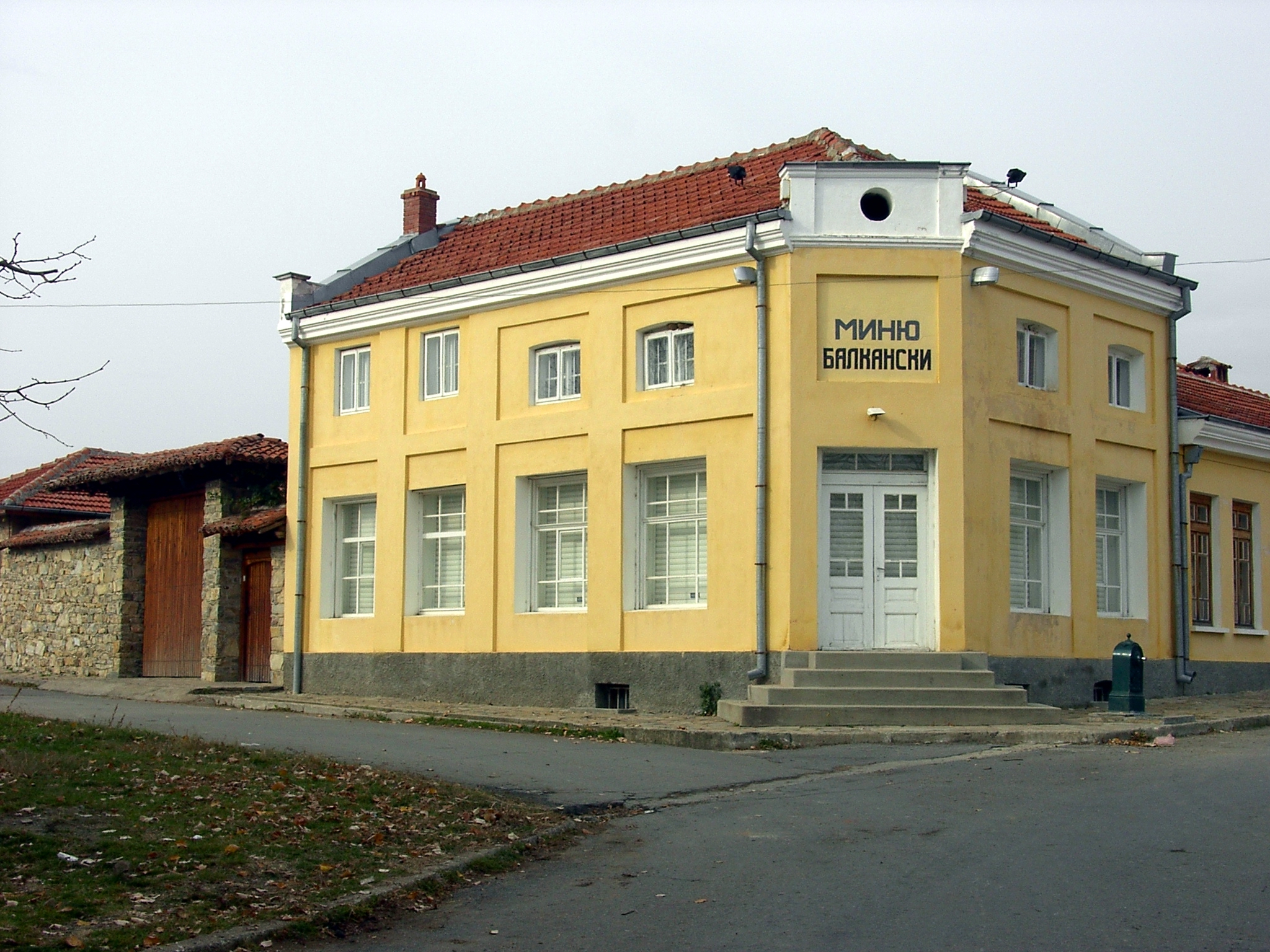 oriahovica.MB.01.